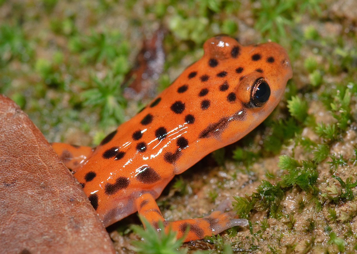 Eurycea lucifuga (Cave Salamander)